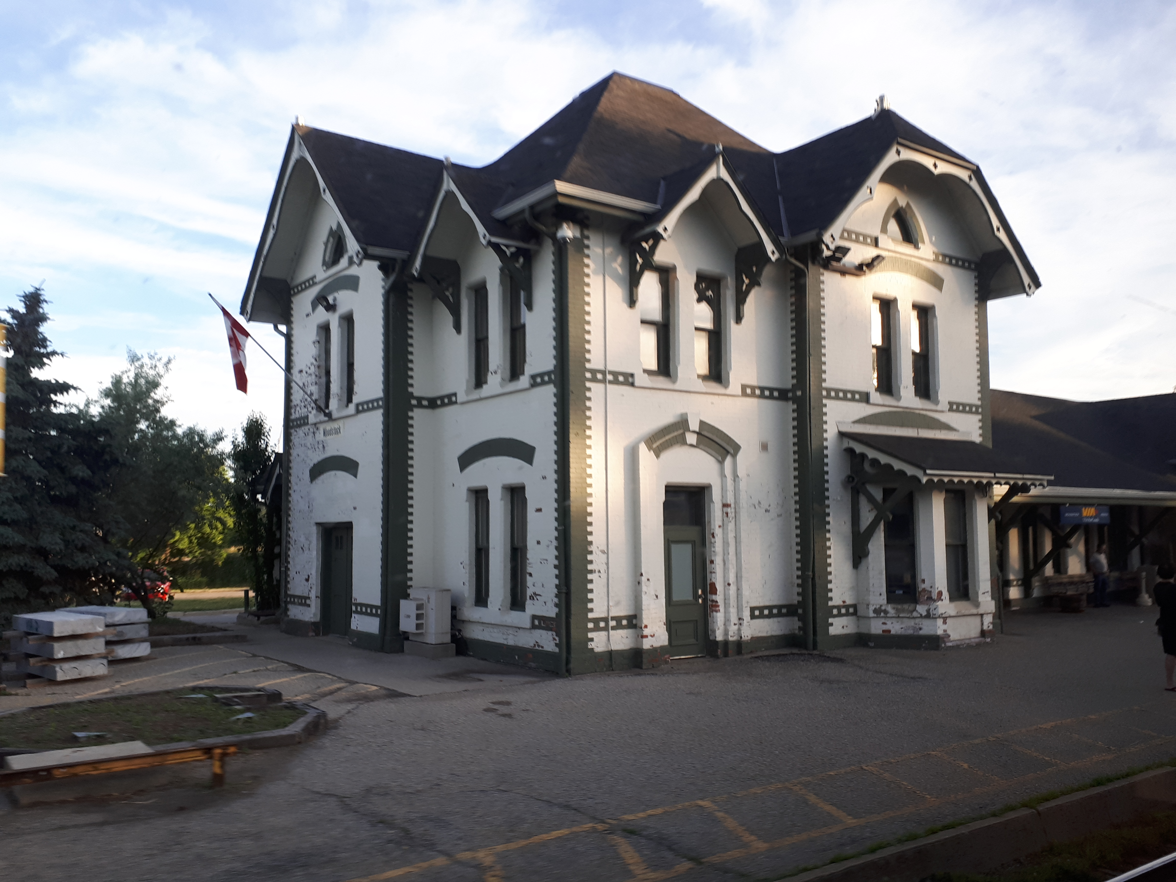 Views of the Woodstock VIA rail station, from a passing VIA train.